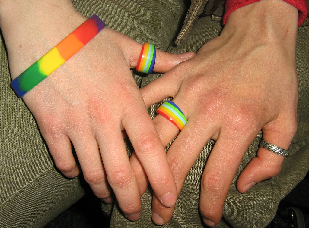 Same Sex Marriage